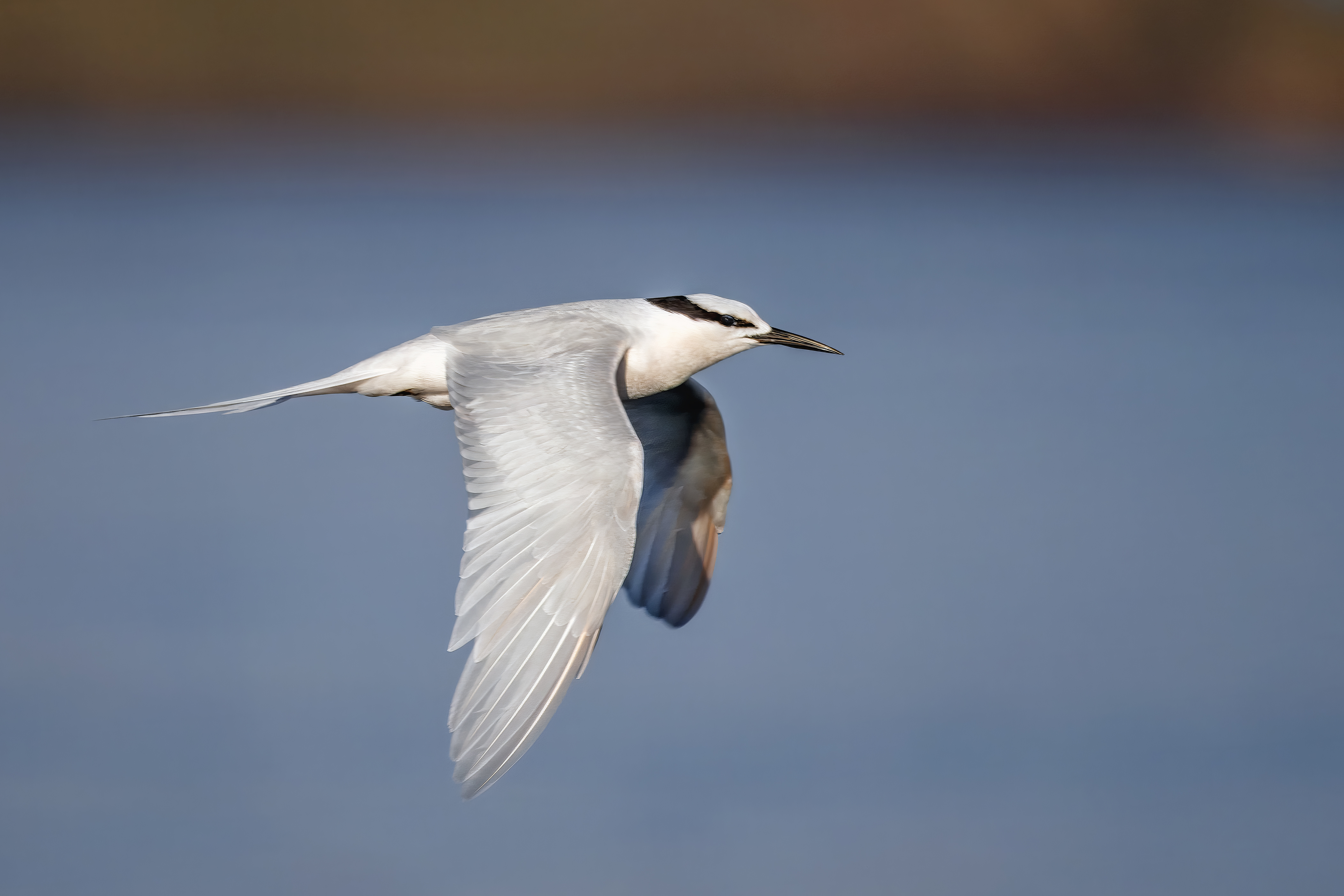 Black-naped tern (Sterna sumatrana) adult breeding plumage, Komodo National Park, Indonesia